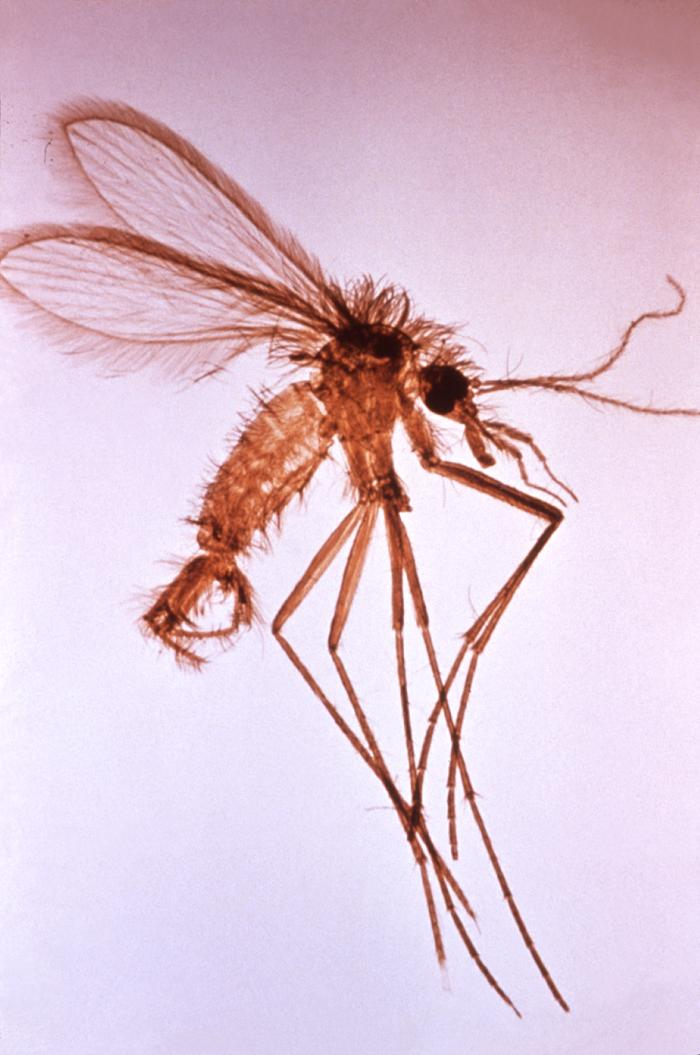 ID#: 6274 Description: This image depicts a mounted male Phlebotomus sp. fly, which due to its resemblance, may be mistaken for a mosquito. Phlebotomus spp. sandflies are blood-sucking insects, which are very small, and sometimes act as the vectors for various diseases such as leishmaniasis, and bartonellosis, also known as “Carrión’s disease” Content Providers(s): CDC/ Donated by the World Health Organization (WHO), Geneva, Switzerland Creation Date: 1976 Copyright Restrictions: None - This image is in the public domain and thus free of any copyright restrictions. As a matter of courtesy we request that the content provider be credited and notified in any public or private usage of this image.